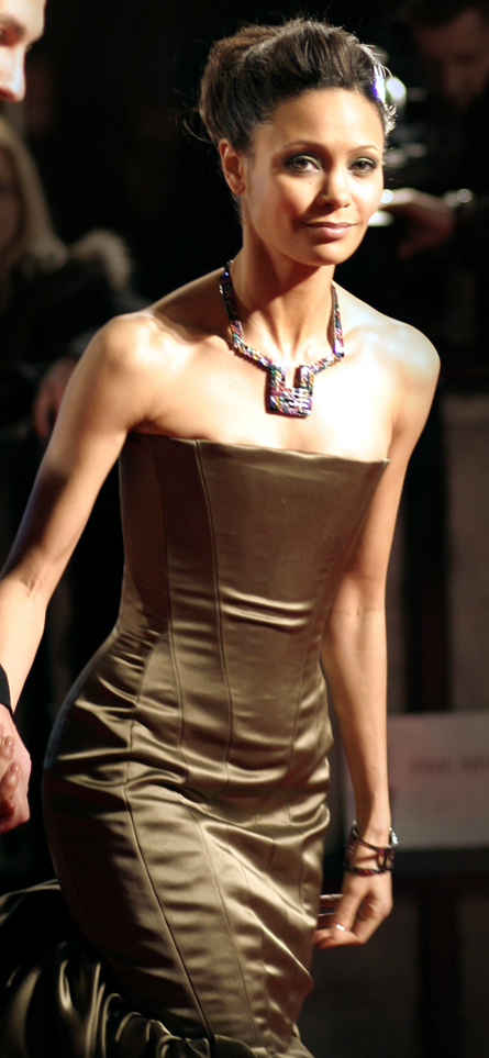 Thandie Newton at the 2007 BAFTAs